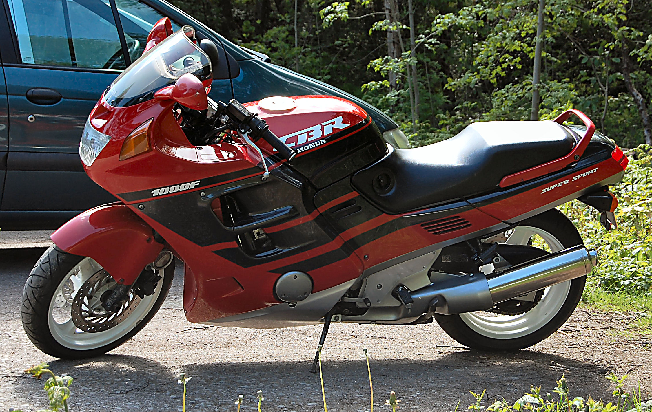 MCN overall verdict The sports-touring Honda CBR1000F was always in the shadow of more exciting motorcycles, yet had a decade long production run. It had its good points, such as a comfortable riding position, good build quality - except for early camchain tensioner problems - and respectable handling. But the Honda CBR1000F is so bland it makes Katie Melua look like a brazen rock chick.